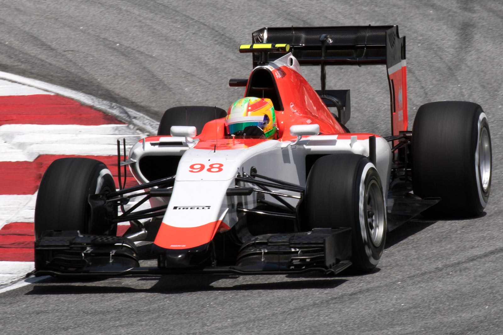 Formula One 2015 Rd.2 Malaysian GP: Roberto Merhi (Manor-Marussia)